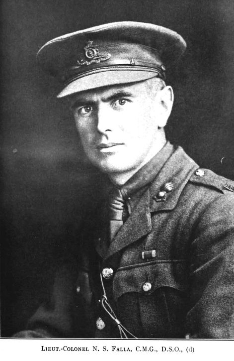 Portrait of Norris Stephen Falla